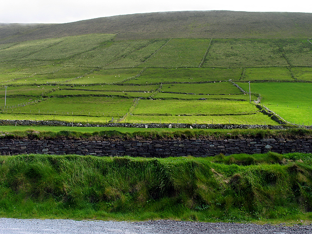 Pasture along the Dingle Way and slopes of Mount Eagle. This pasture sums up this grid square, beautiful rolling hills of pasture. The square is probably marginally more land than sea, but also has a beautiful coastline and a tricky pier to access!